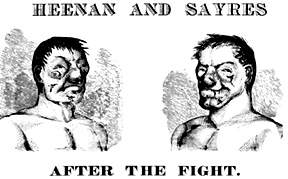 On 17th April 1860, English bare-knuckle boxers John C. Heenan and Tom Sayers (misspelled here as 'Sayres') had a historic fight lasting two hours. Frederick William Nichols was present with his camera, and took photographs of the injuries sustained by both men. The photographs were subsequently used as the basis for engraved woodcuts so that prints could be made and sold.